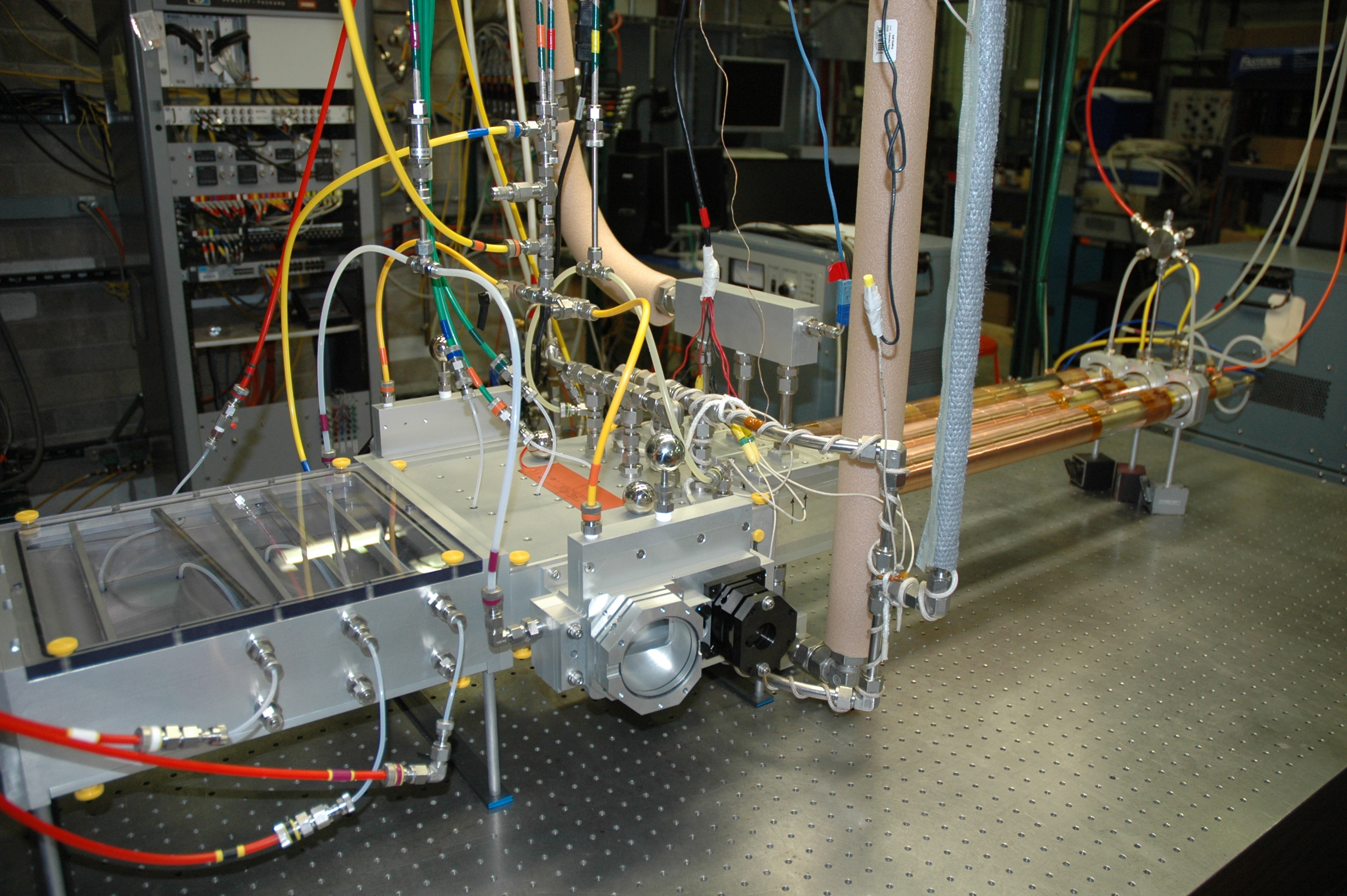 The CAV7 triple-discharge 500W EOIL developed by CU Aerospace and the University of Illinois at Urbana Champaign